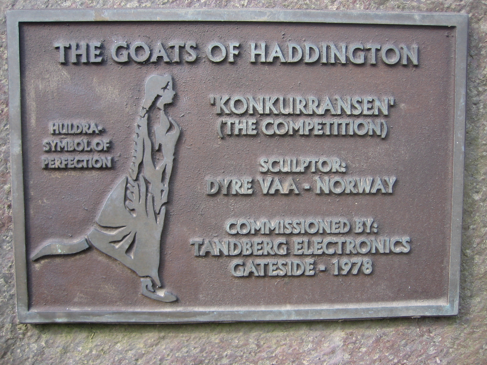 plaque